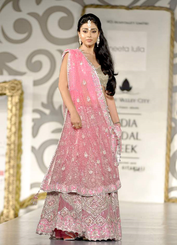 Indian actress Shriya Saran walks the ramp for Neeta Lulla at Aamby Valley City India Bridal Week 2010